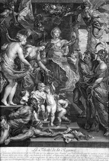 Prosperity of Recency.